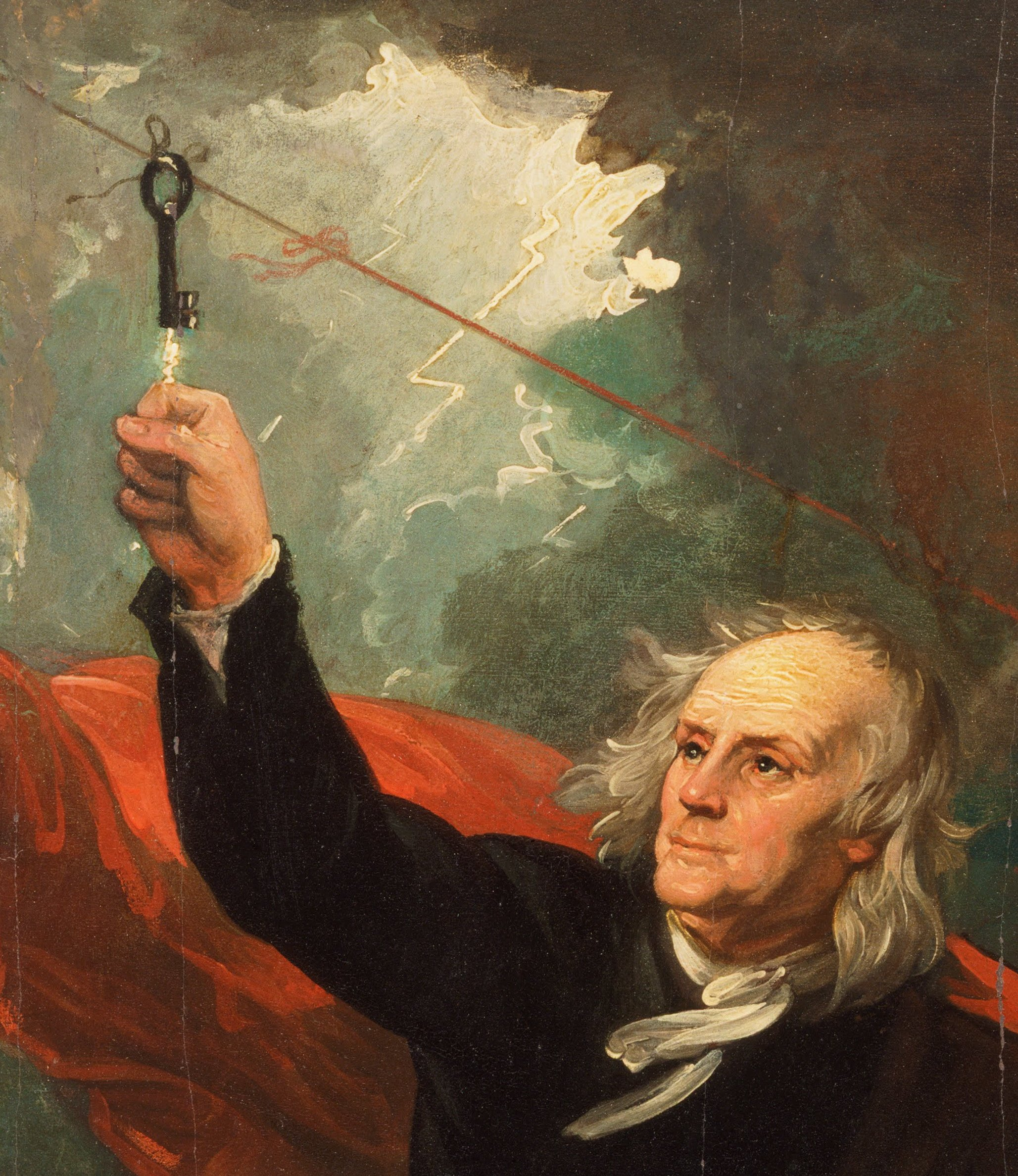 Loxley house key for Franklin kite experiment 1752